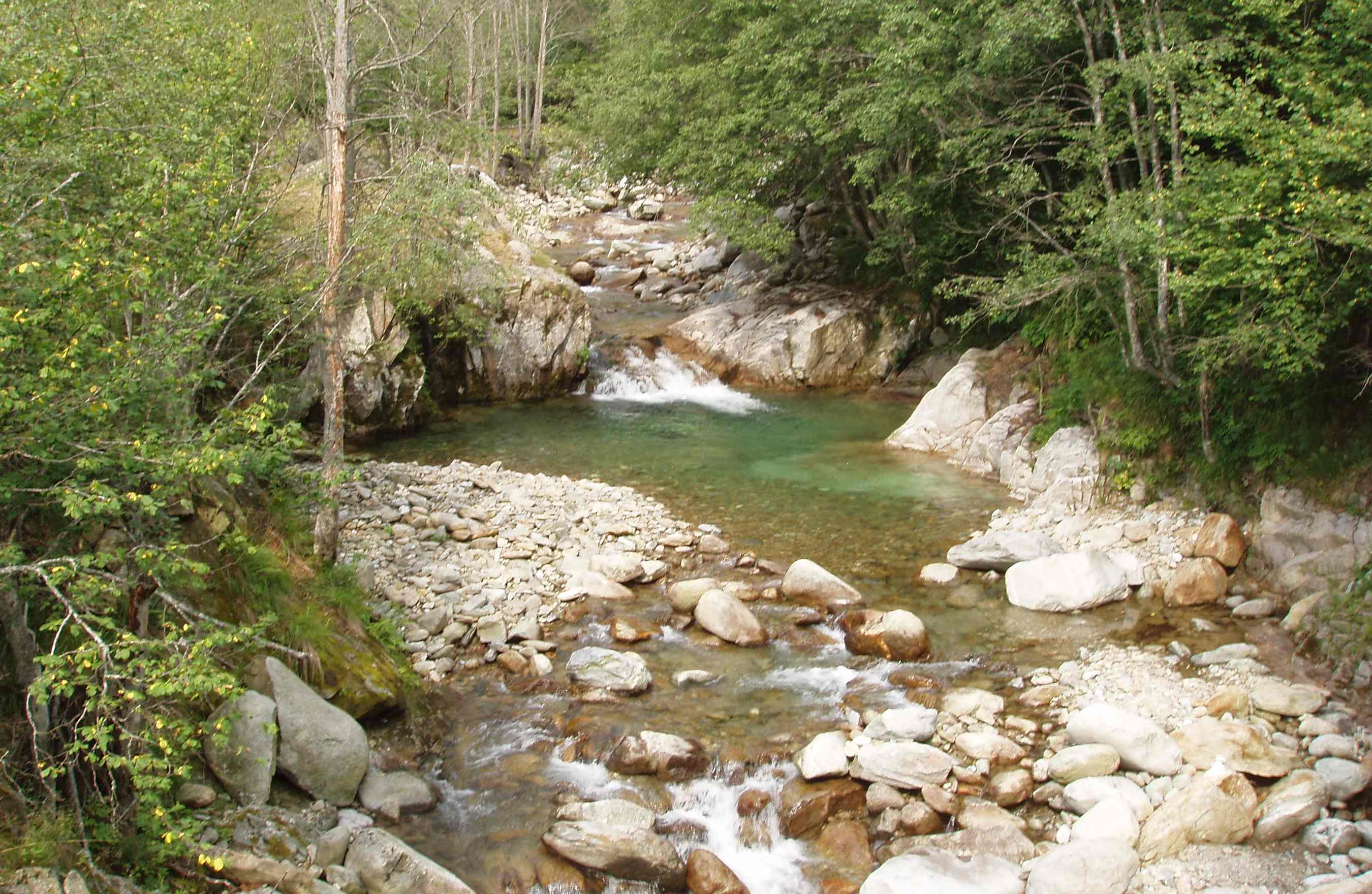 Dolca creek near the Lavaggi bridge (Piedmont, Italy)